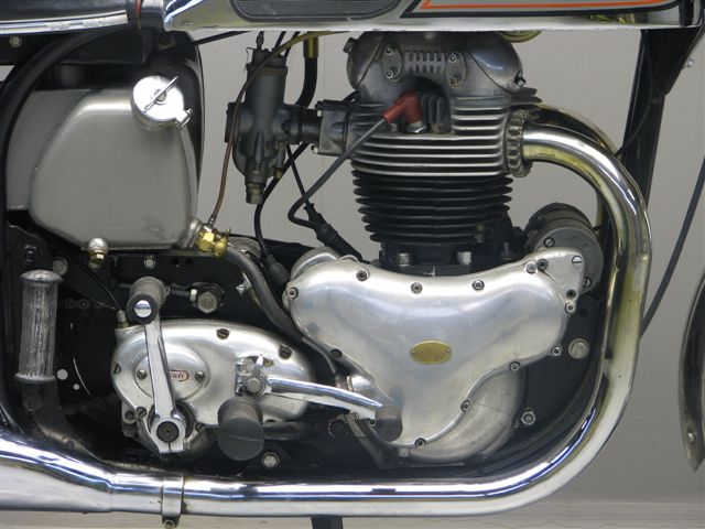 Norton Donimator engine from 1956.